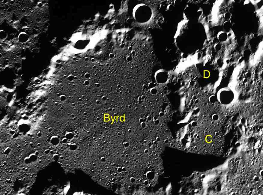 Part of the chart LAC-1 used for the presentation